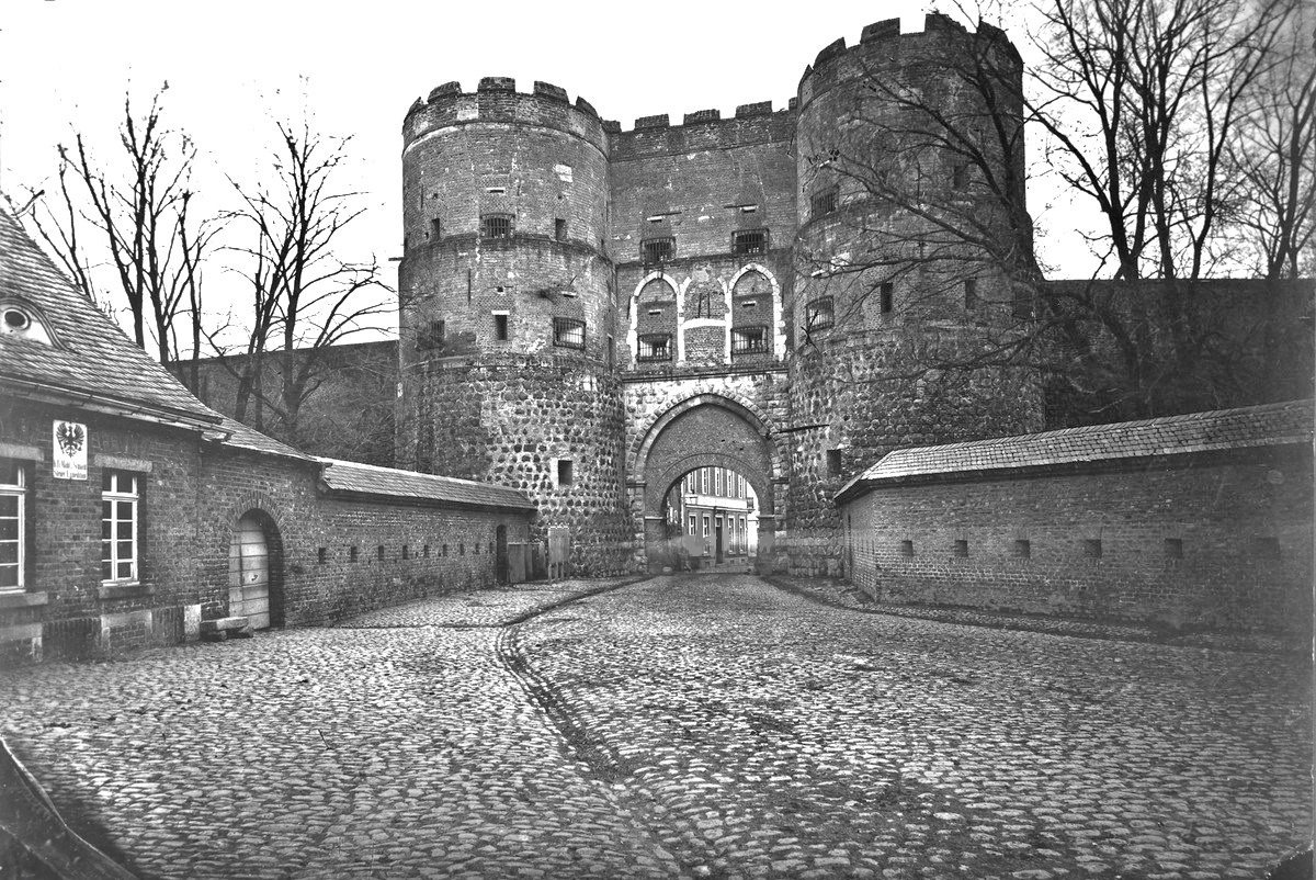 Rudolfplatz - Hahnentor, Feldseite vor Abbruch der Stadtmauer (1880)